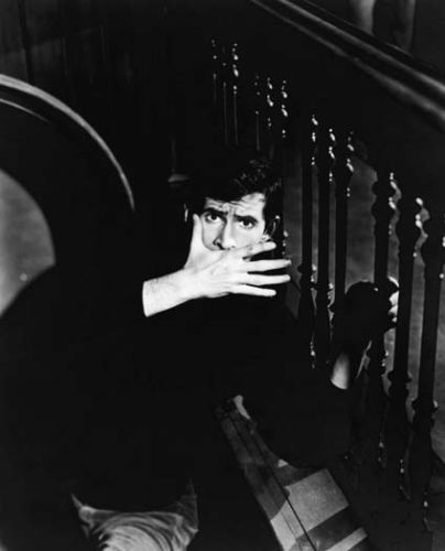 Promotional still of Anthony Perkins from the 1960 film Psycho. See also film still. No copyright notice.